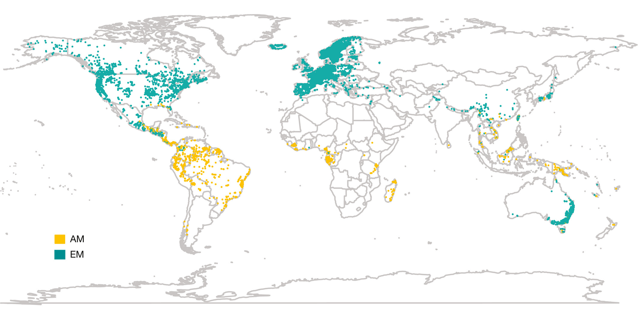 Global distribution of mycoheterotrophic plants associated with arbuscular (AM) and ectomycorrhizal (EM) fungi. Records were obtained from public databases